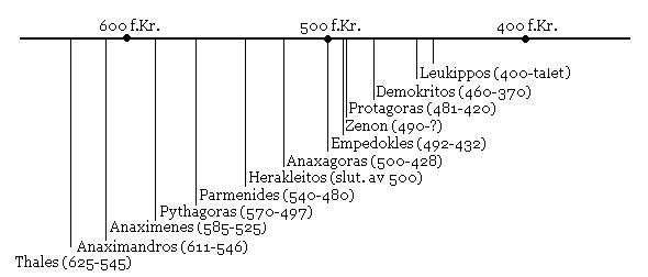 Scheme over the presocratic philosophers dates of birth